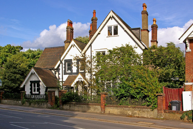 Cranham Lodge, Croydon Road This house was the home of the gardener Eleanor Sinclair Rohde from 1900 to 1950. It is under consideration for local listing.